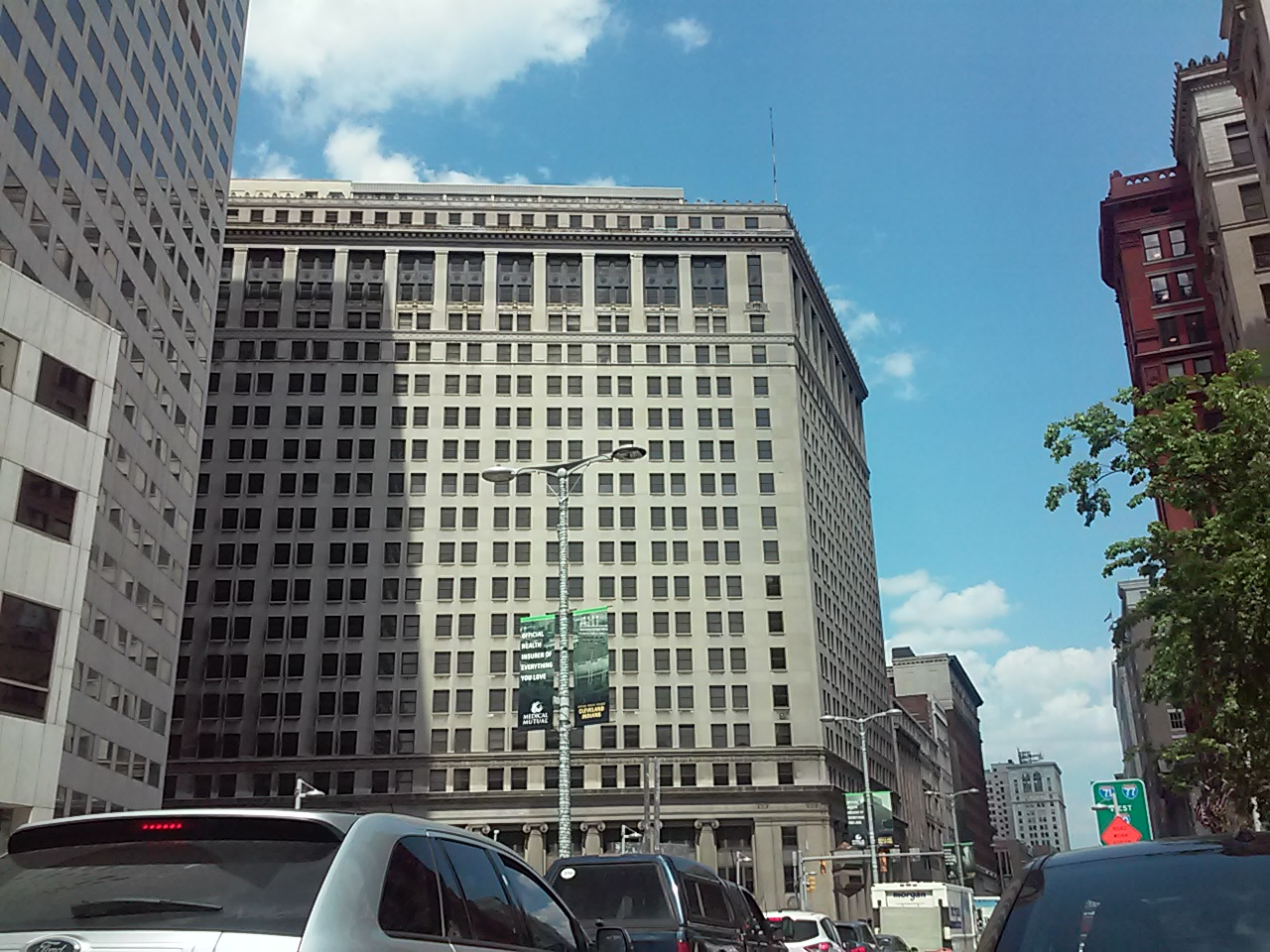 The former Huntington Bank Building